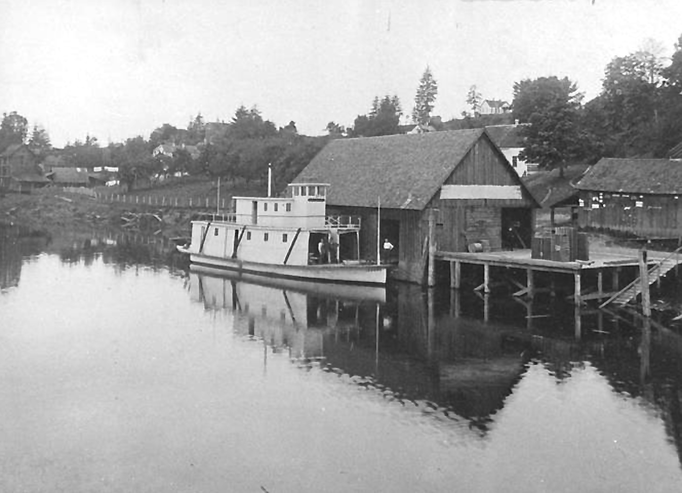 Steamer La Center at Timmens Landing, La Center, Washington], Clark County Historical Museum Photographs Collection, object ID P15.18.8.1.